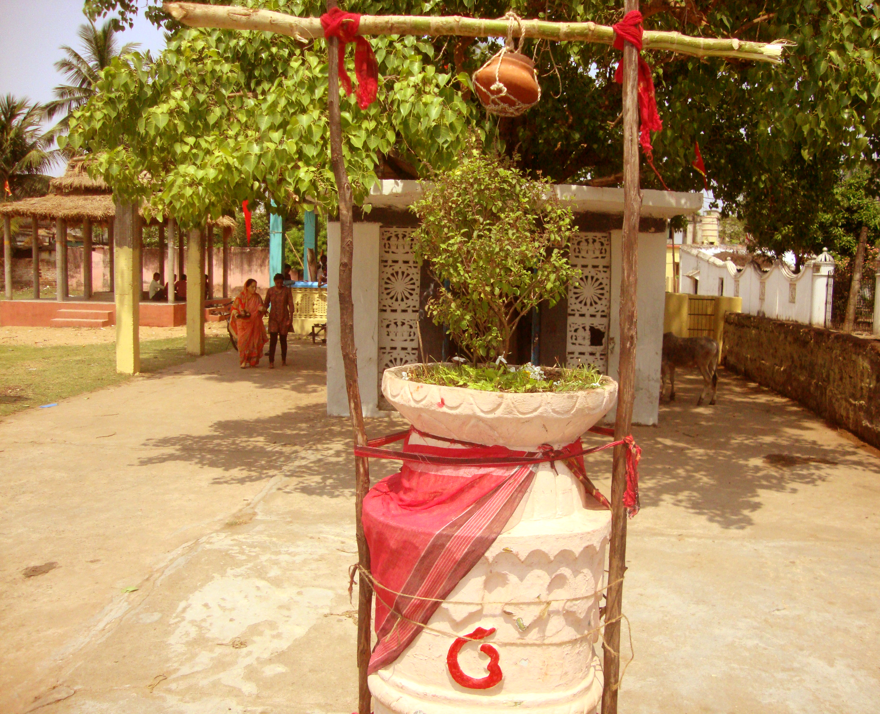 Basundhara thekiଓଡ଼ିଆ: ବସୁନ୍ଧରା ଠେକି